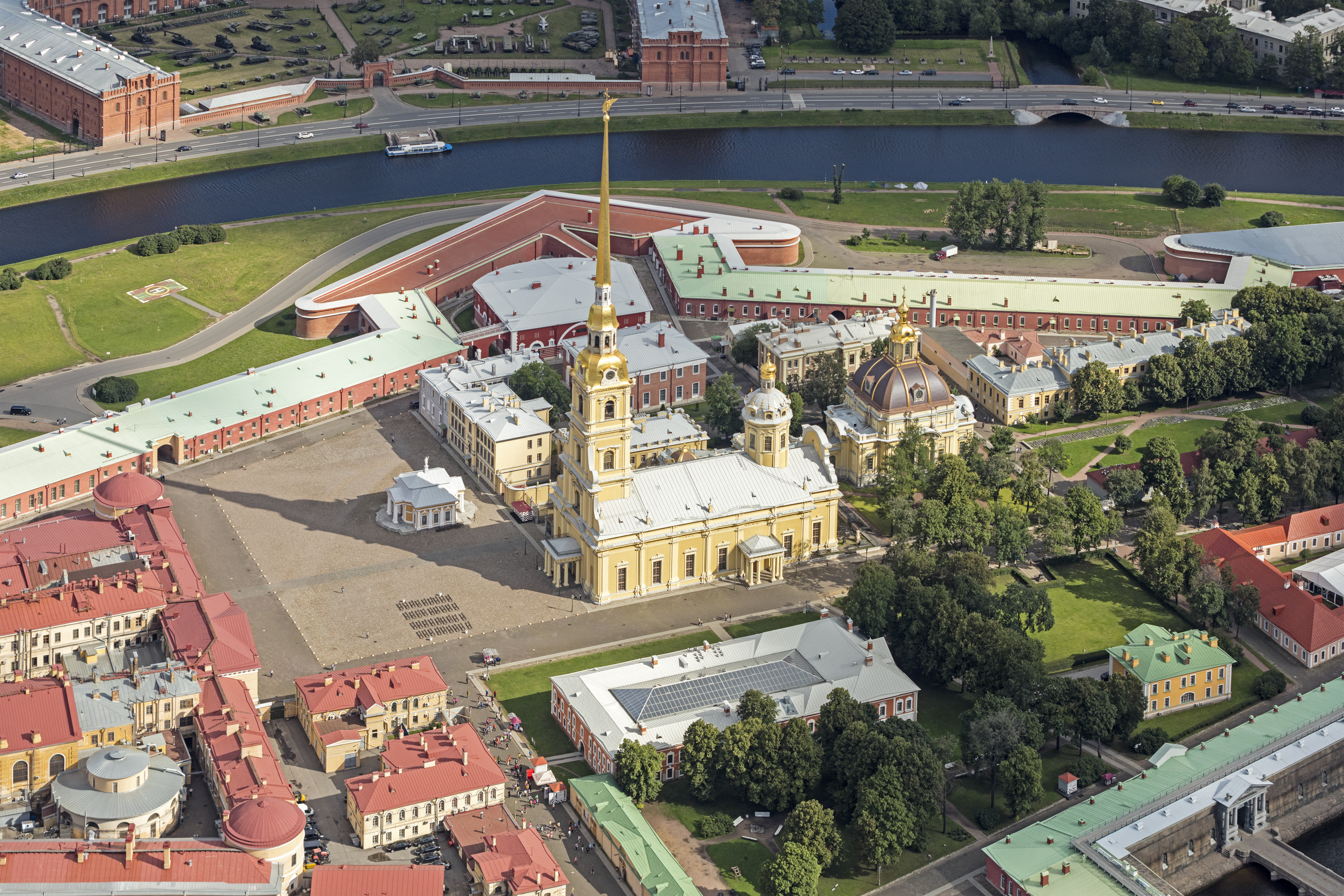 An aerial view of Peter and Paul Cathedral on Zayachy Island, Saint Petersburg, Russia.